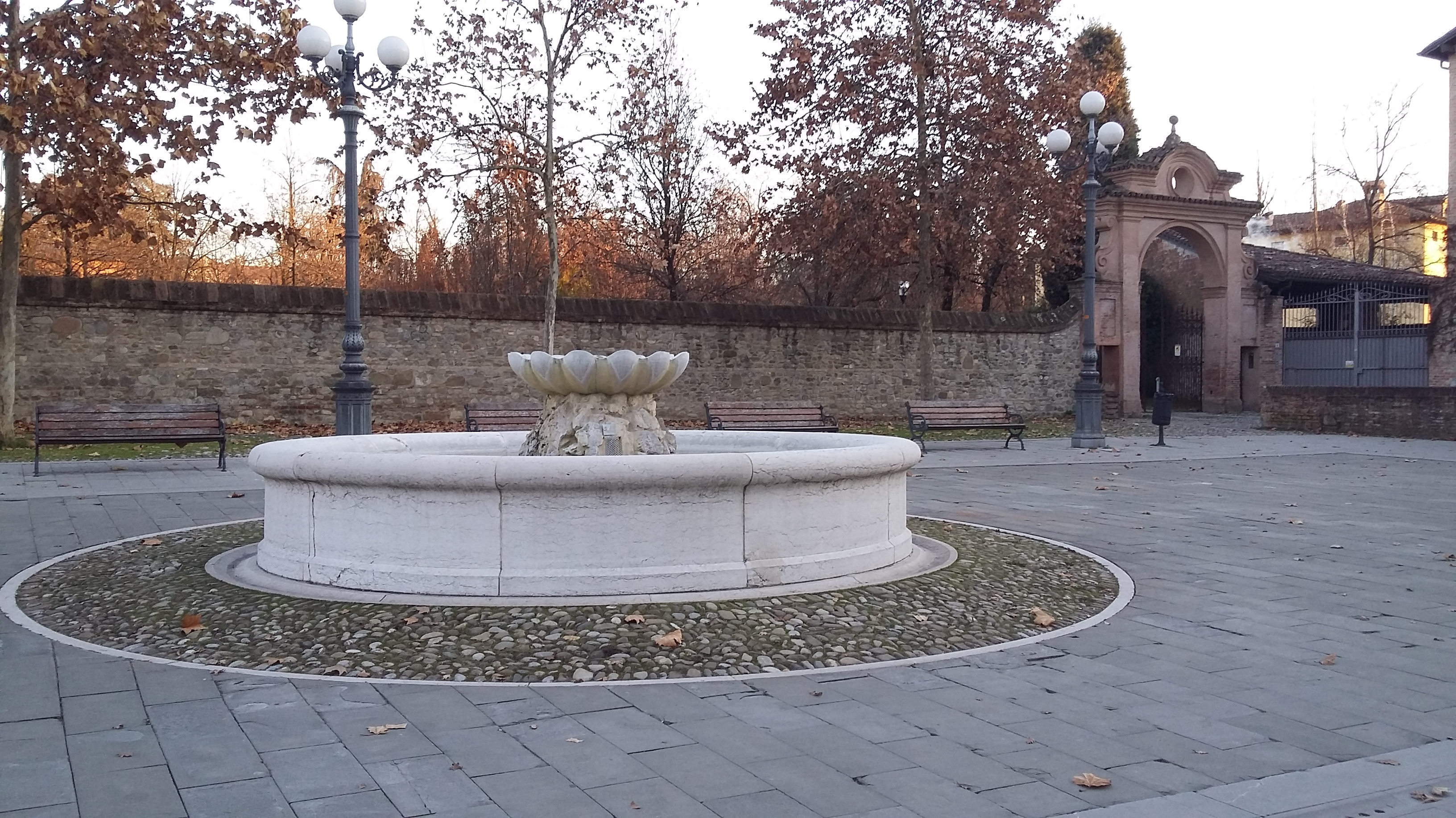 Porrino Square, Sassuolo (MO)